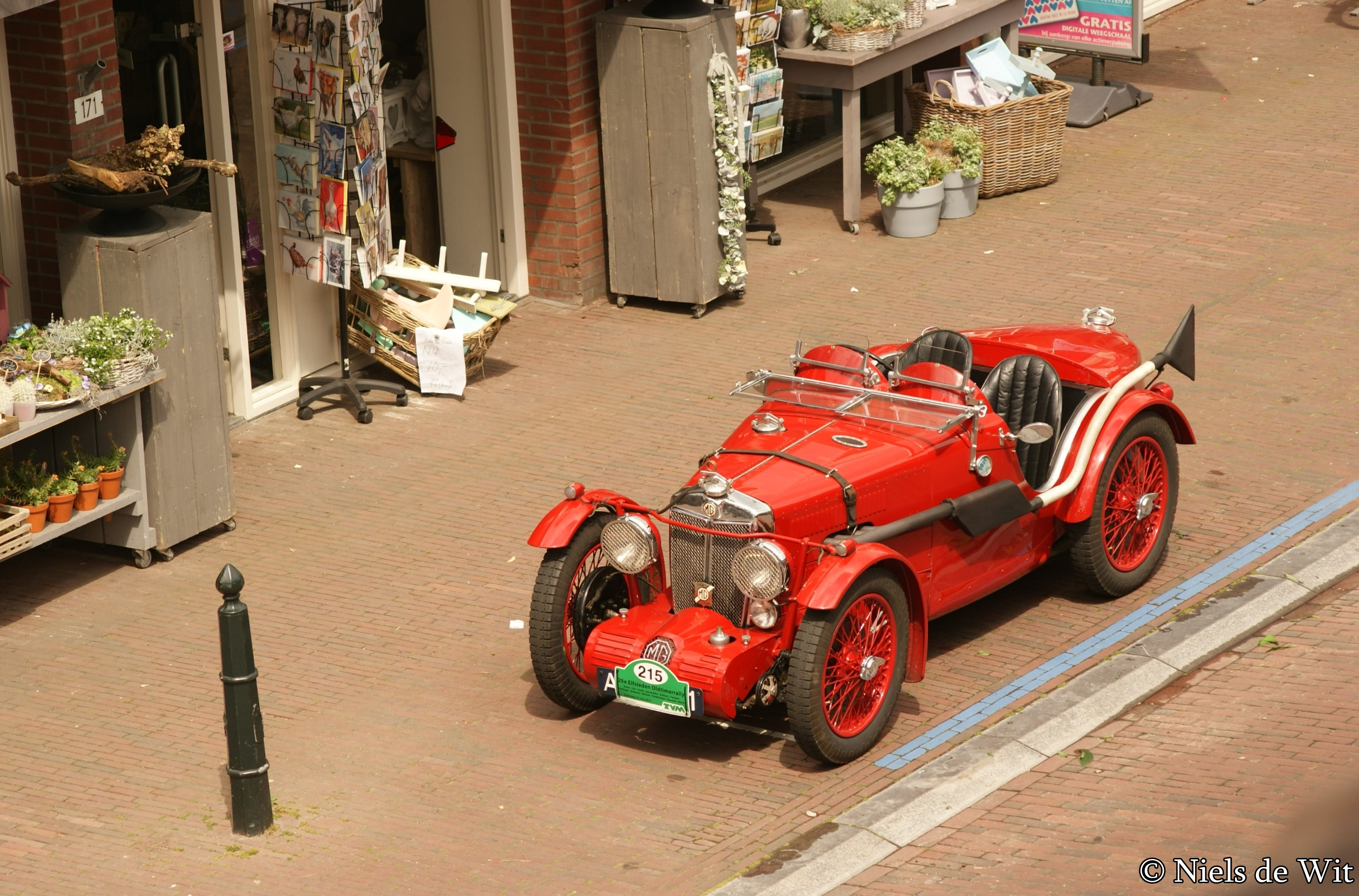 AM-75-51 Only 43 made!